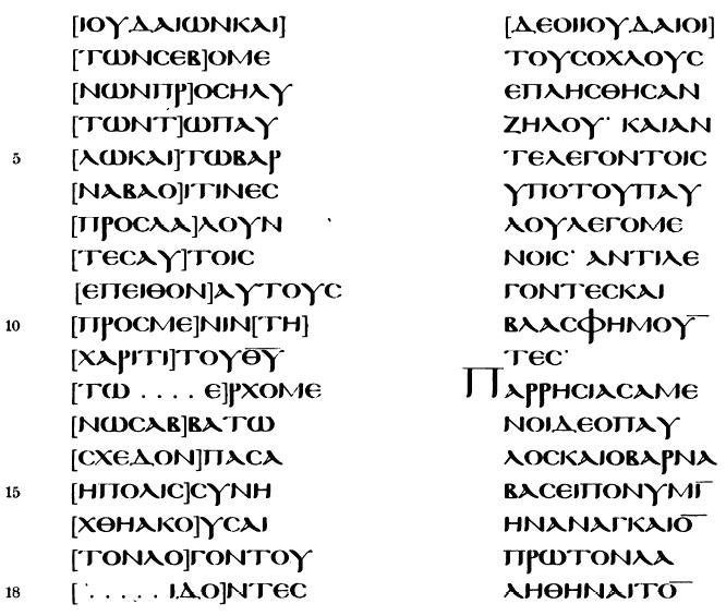 page with text of Acts 12:43-46 in Tischendorf's facsimile edition ("Monumenta sacra inedita" 1855)